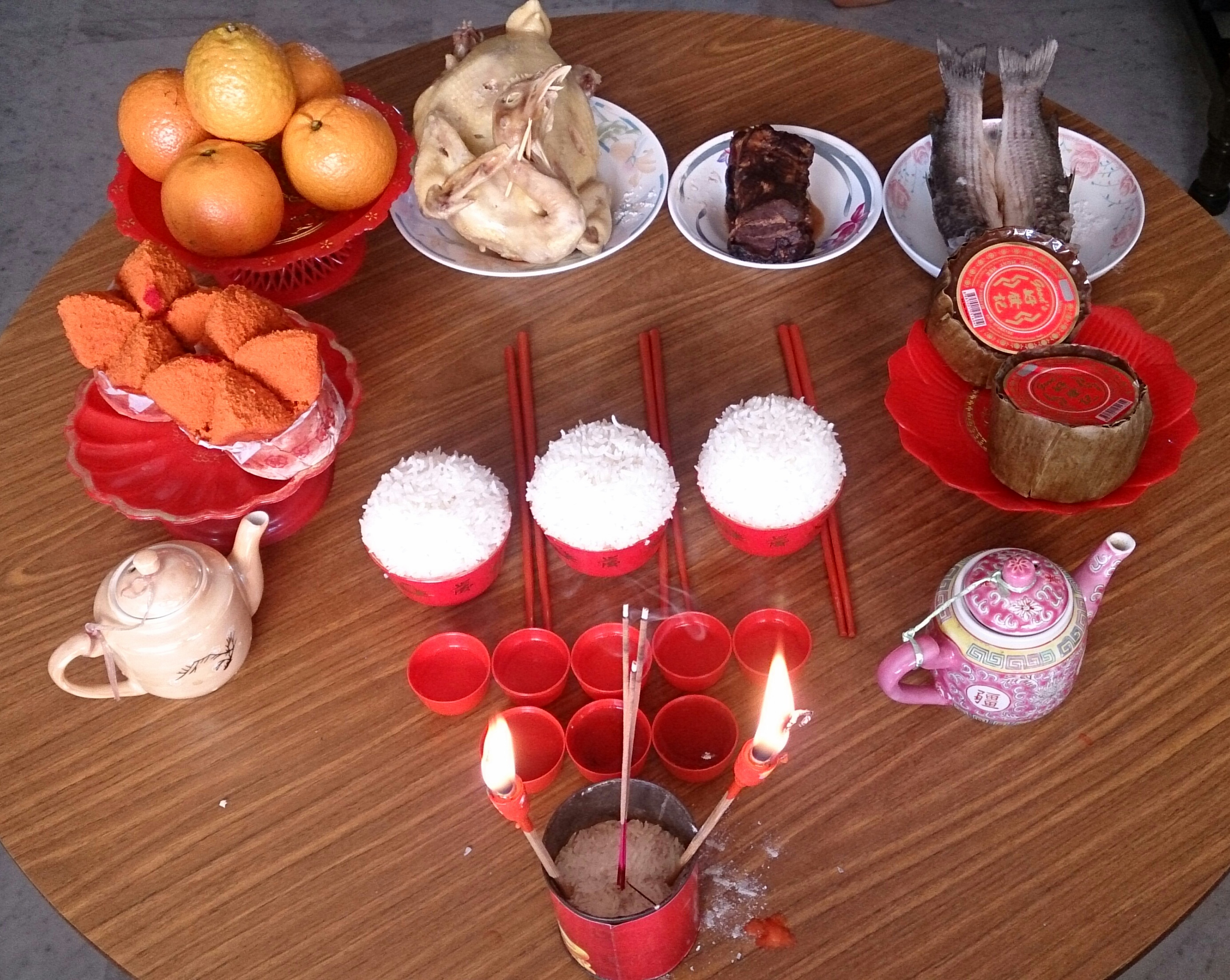 Prayers and simple offerings to the Chinese gods during Chinese New Year. Clockwise from upper left: tangerines, chicken, pork, fish, nian gao, tea, rice, and fa gao.